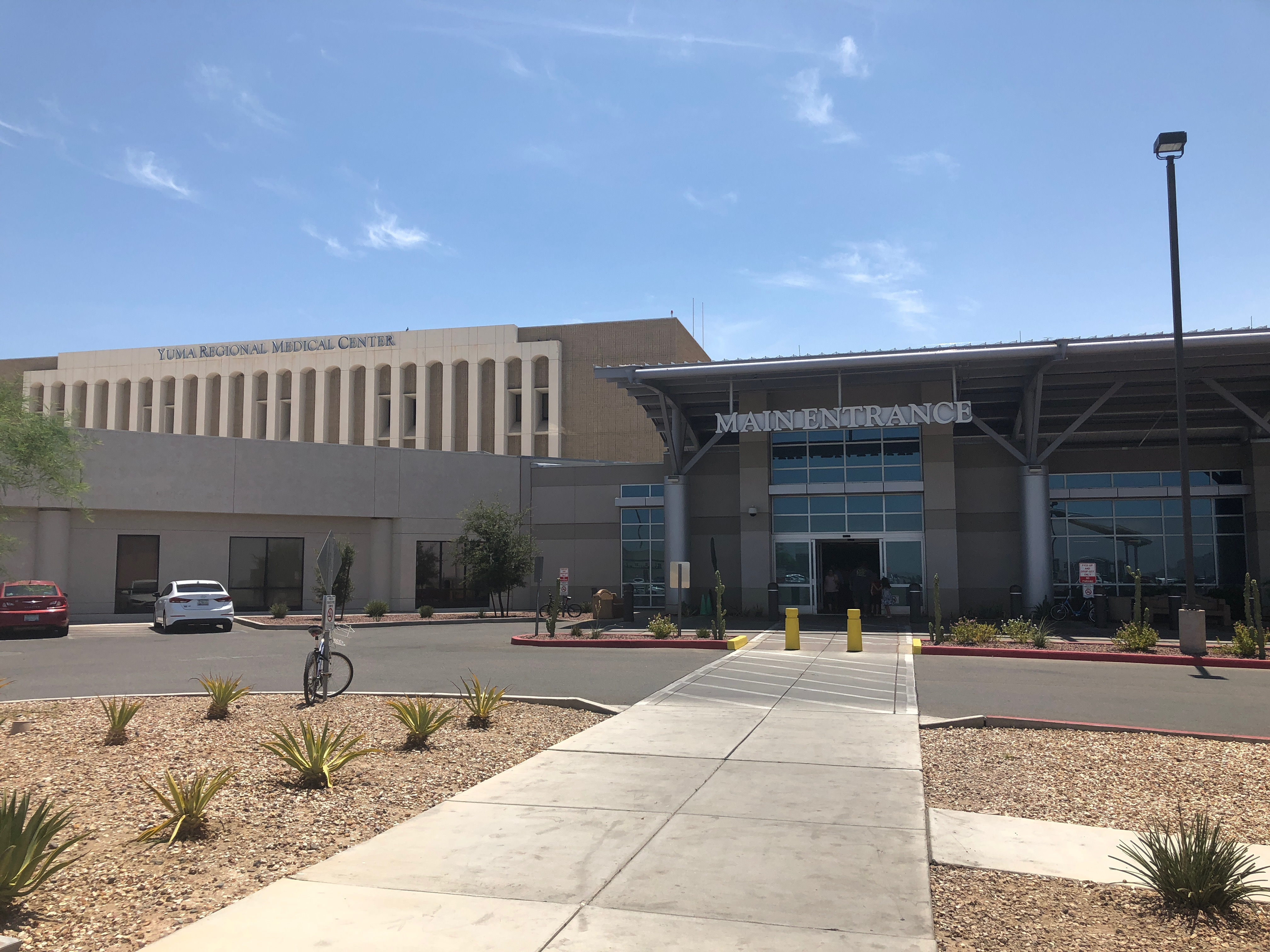 Main entrance at Yuma Regional Medical Center on 25/7/2018